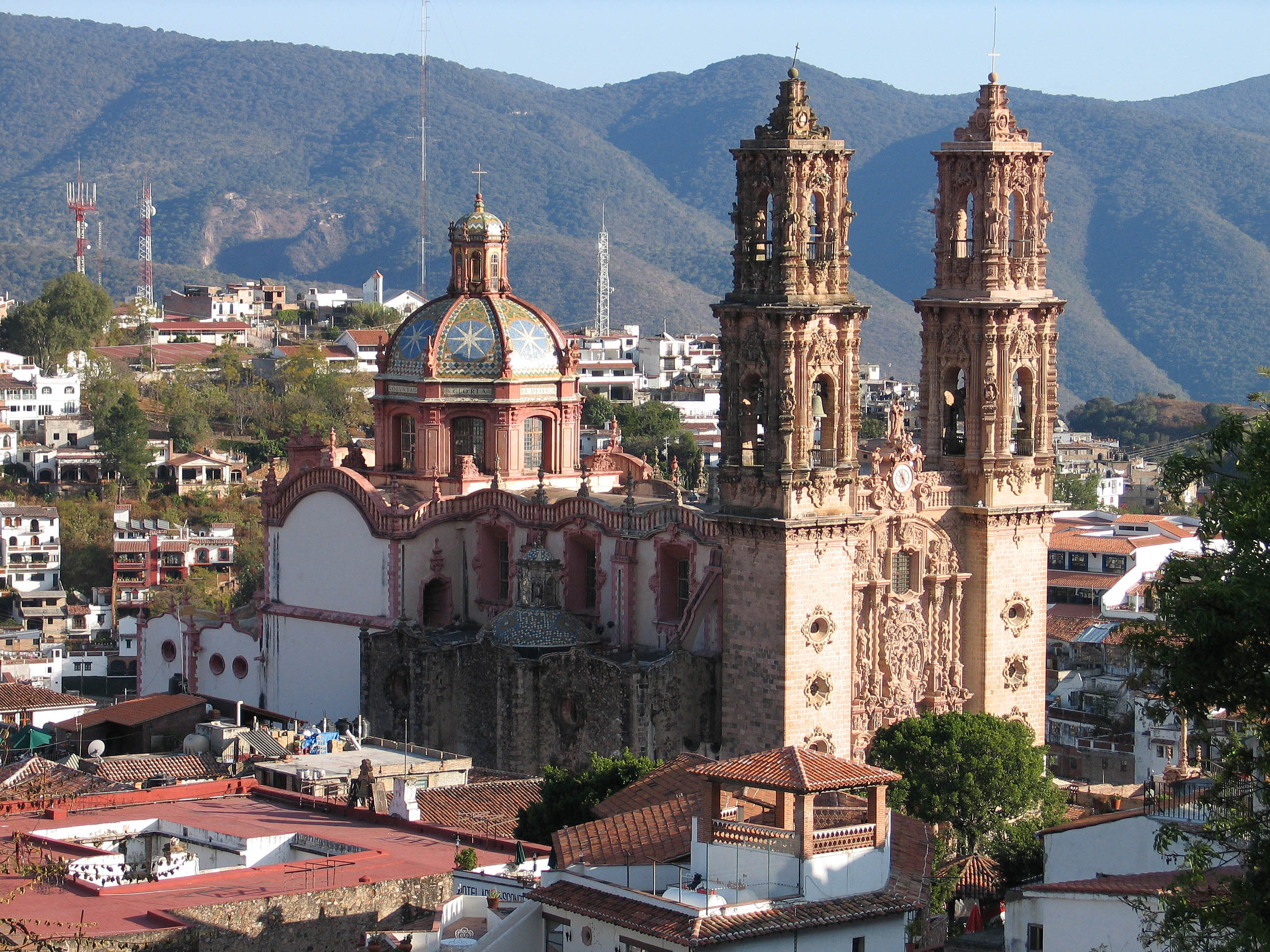 Colonial Spanish Baroque Santa Prisca church and central Category:Taxco de AlarcónTaxco de Alarcón — Guerrero state, México. Credits Photograph: Luidger 10. Januar 2005